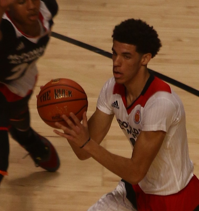 Lonzo Ball going by Markelle Fultz at the w:2016 McDonald's All-American Boys Game